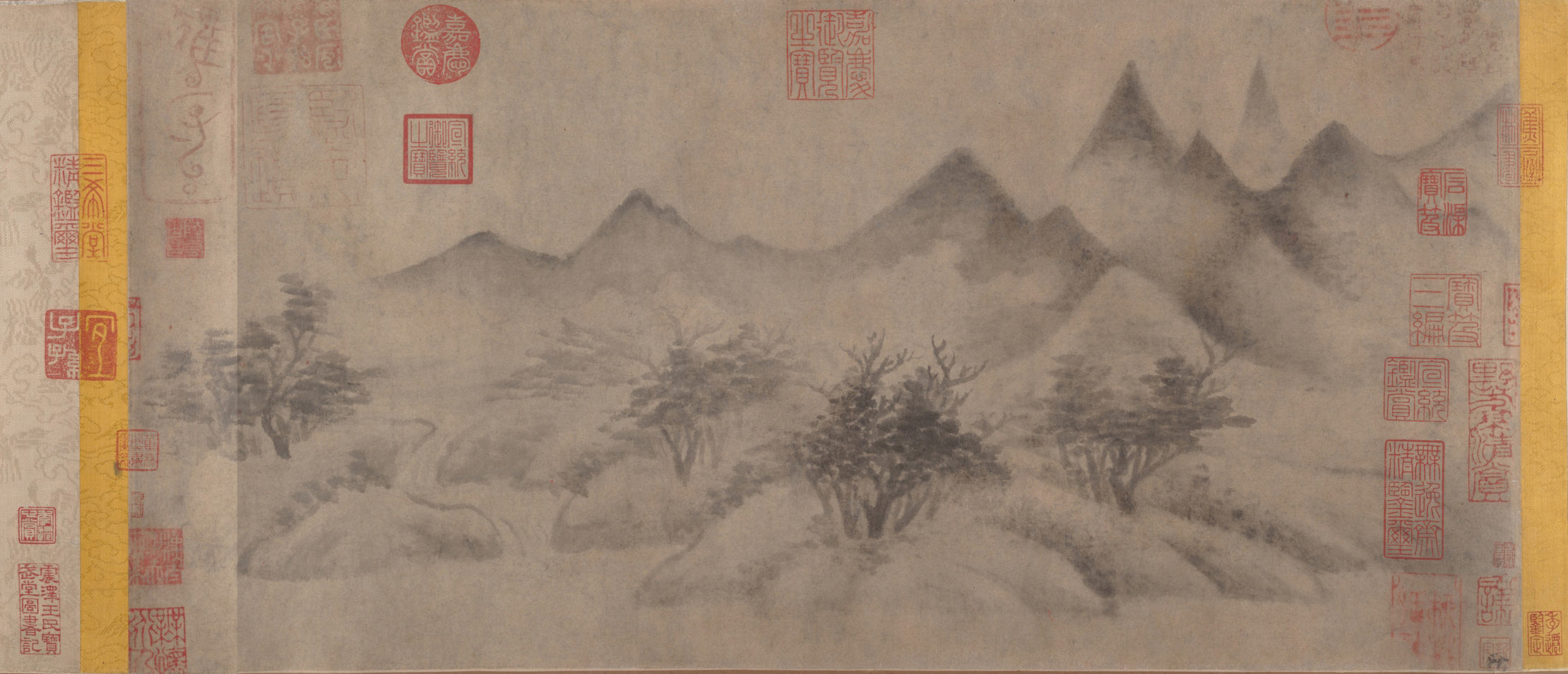 China; Handscroll; Paintings